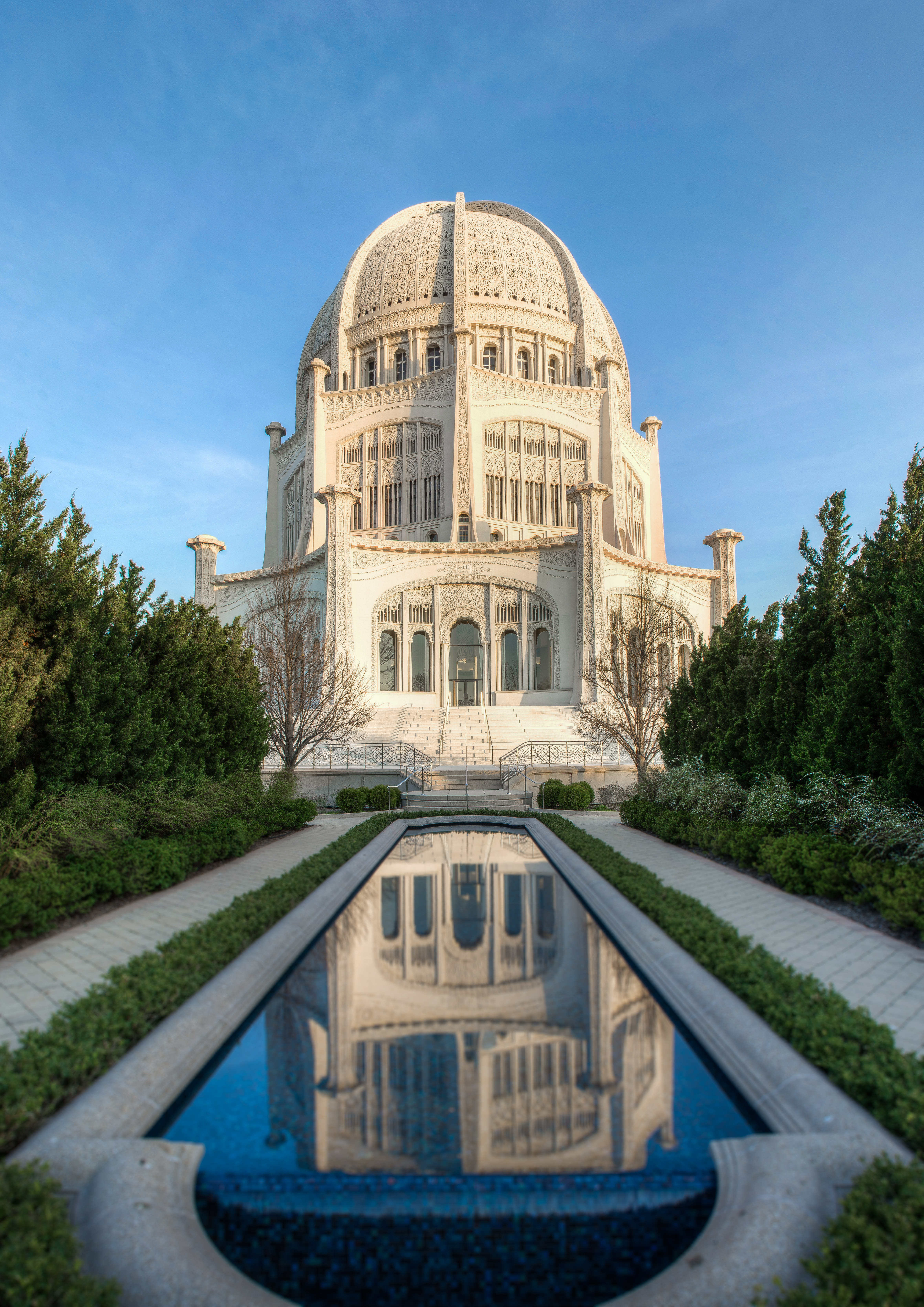 The Bahá'í House of Worship in Wilmette, Illinois, United States. There are only eight Baha'i temples in the entire world, and the one in the US is located in a small suburb, Wilmette, which is north of Chicago. This beautiful structure is immediately visible when driving past, towering over the nearby residential homes and parks.